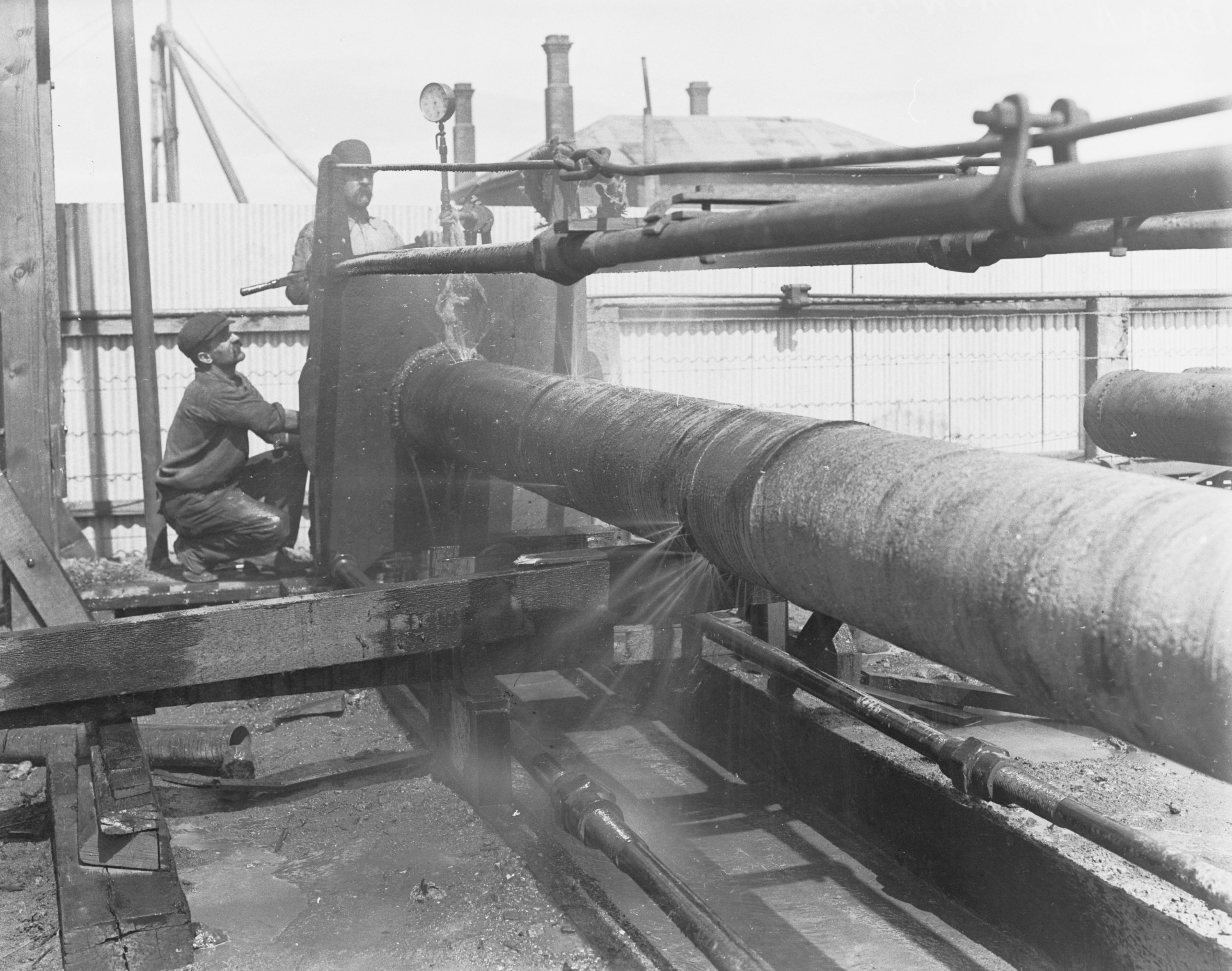 Manufacture of pipes at McPhan-Ferguson's Pipe Factory at Port Adelaide, c. 1905.